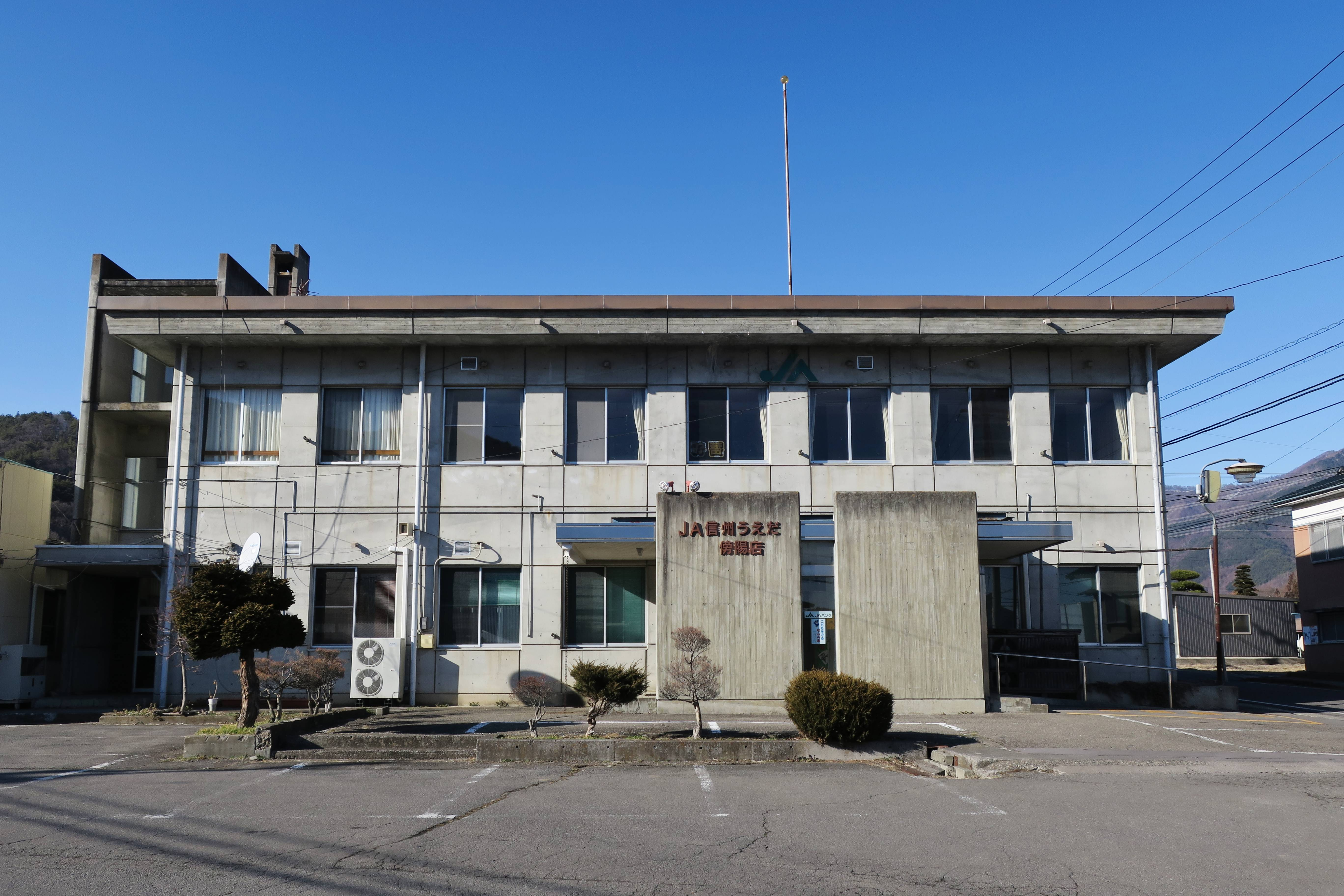 JA Shinshu Ueda Soehi.